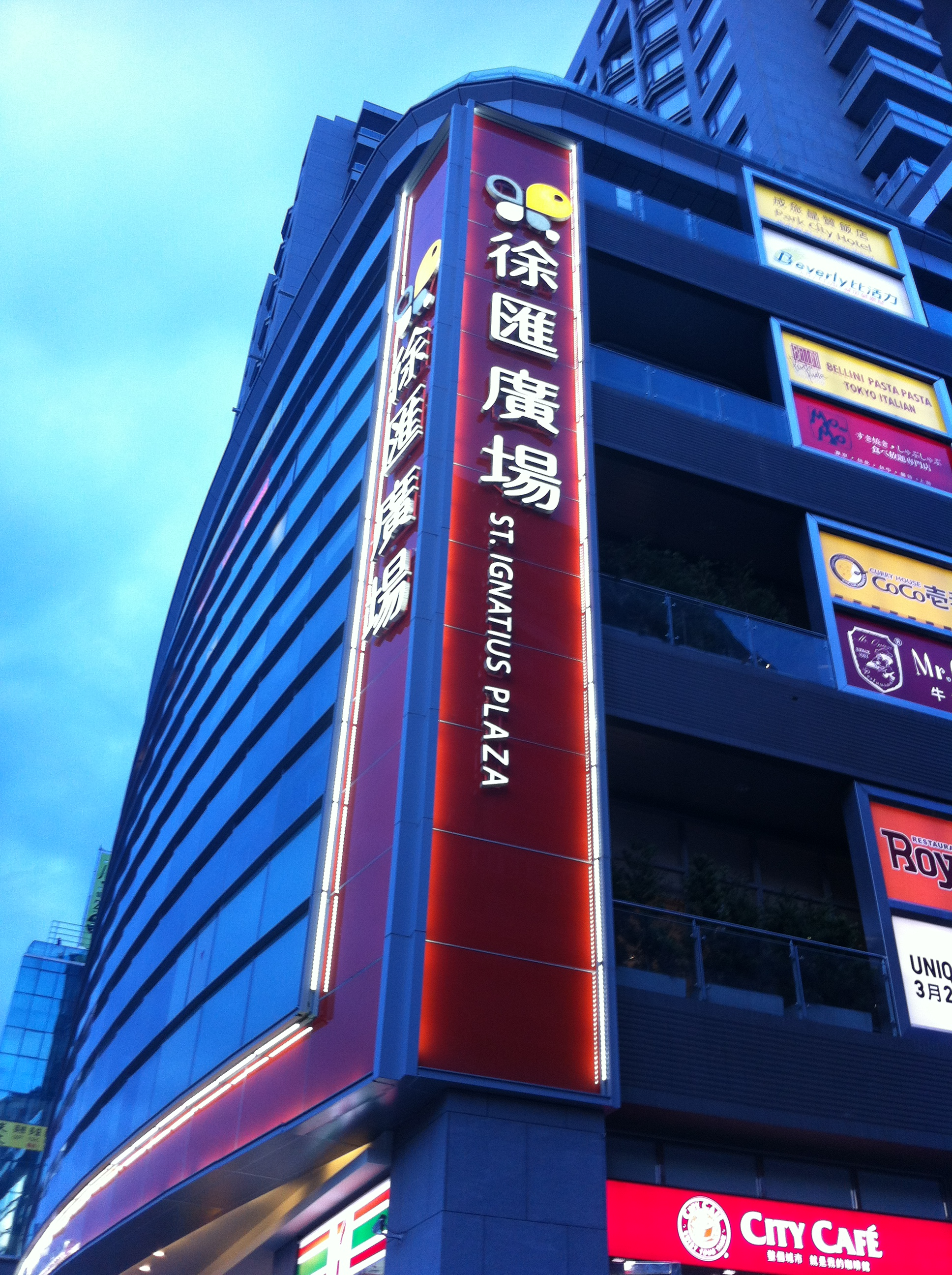 ST.IGNATIUS PLAZA中文（台灣）: 徐匯廣場